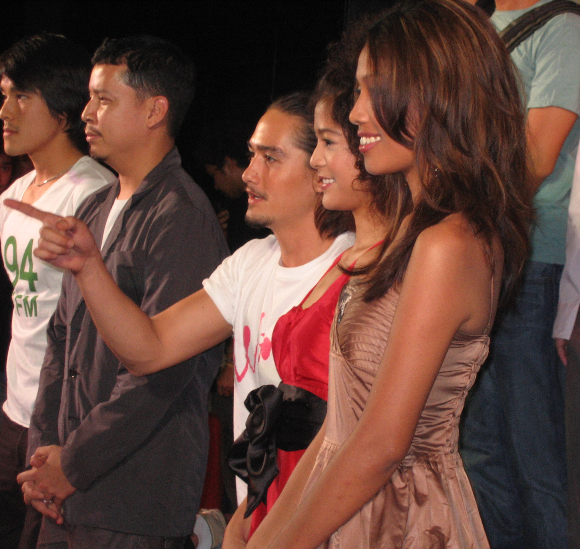 Actor Ananda Everingham points to the crowd during a photo line-up at the press preview of Ploy at SF World in CentralWorld, Bangkok. The actors are, from left, Thaksakorn Pradabpongsa, Ananda, Apinya Sakuljaroensuk and Porntip Papanai.